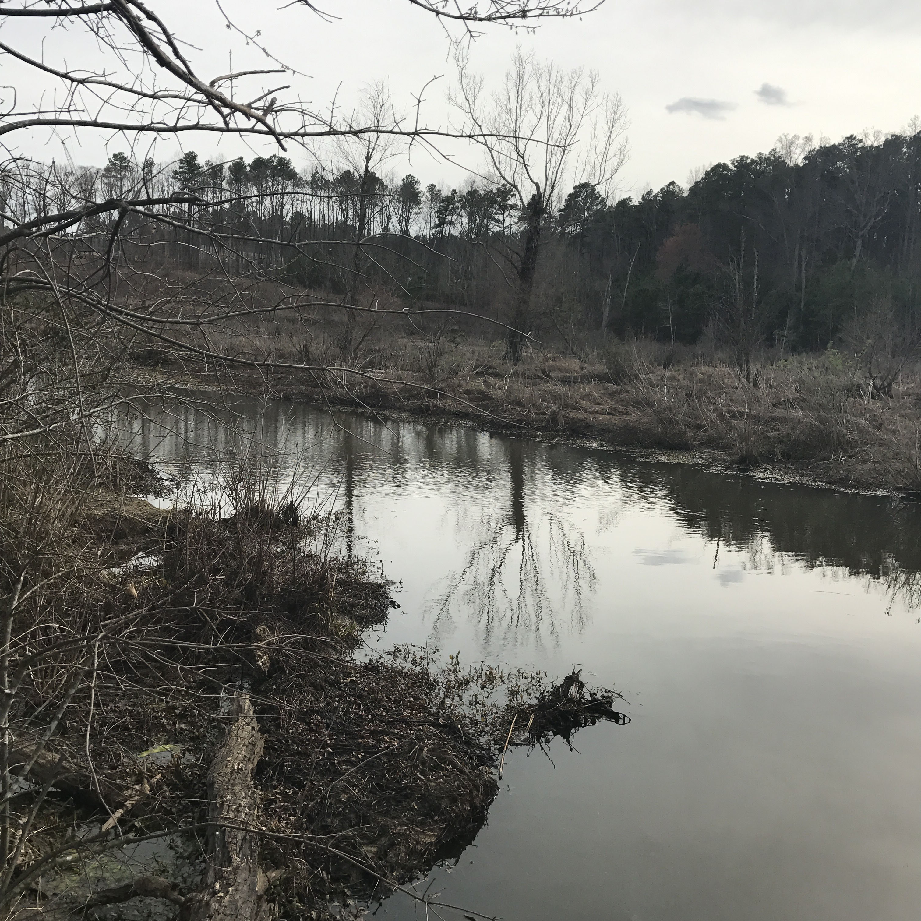 Tuckahoe Creek, which forms part of the border between Henrico and Goochland Counties of the U.S. state of Virginia.